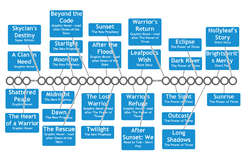 Second Timeline for Warriors Series, spanning from Ravenpaw's Path to end of Power of Three and Hollyleaf's Story